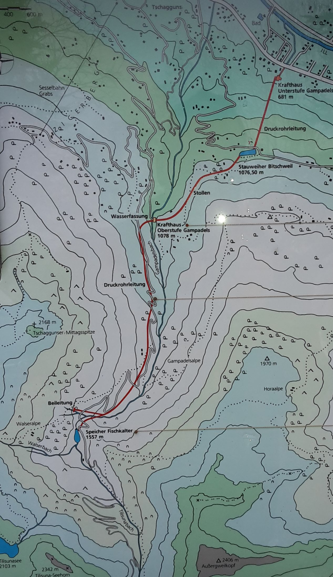 A part of the Information-board near the Kraftwerk Gampadels (first level) by the Vorarlberger Kraftwerke AG. The power station went into operation in 1989. Immediately adjacent to the power plant, the water intake for the next power plant Gampadels (secound level).